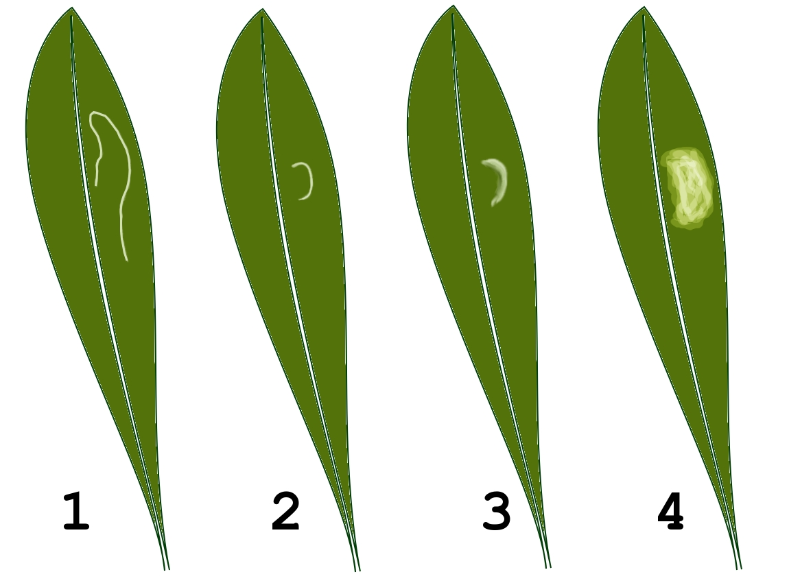 Leafmines by larvae of Olive moth (Prays oleae BERNARD) Legend: 1) mine of larva instar I; 2) instar II; 3) instar III; 4) instar IV.